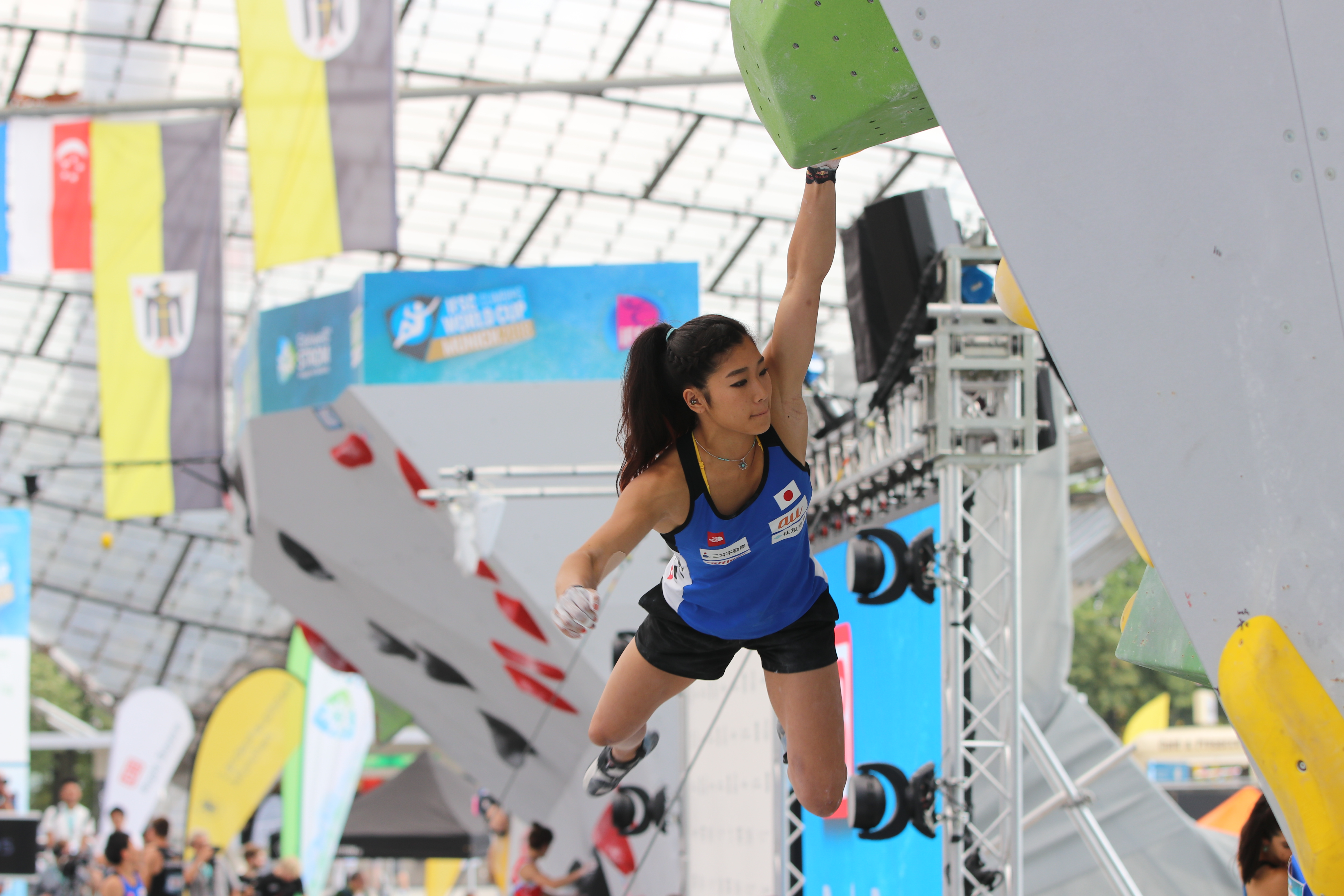 Boulder Worldcup 2018, Final Event in Munich 2018-08-18, Semi-Finals.